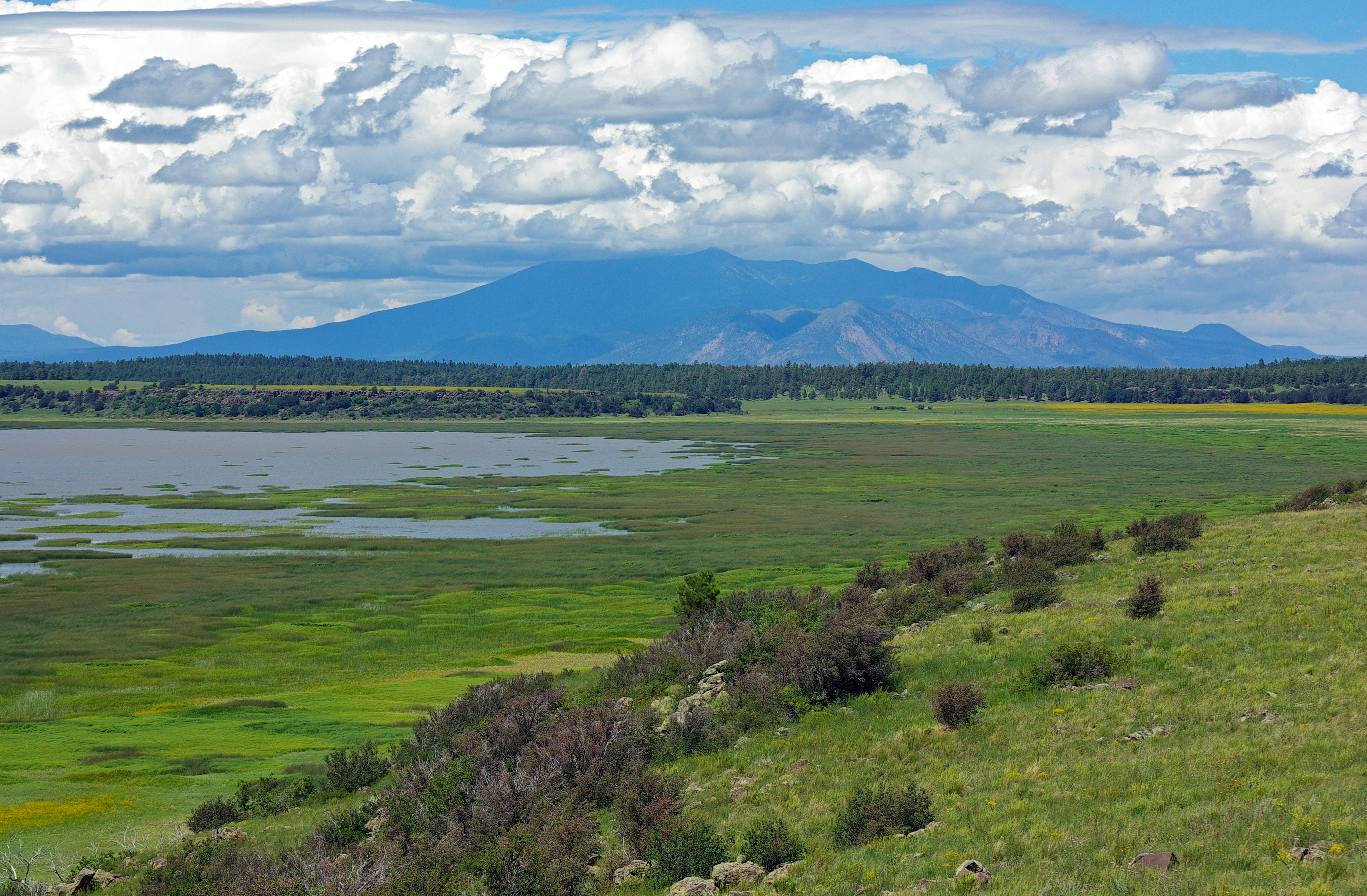 The San Francisco Peaks as seen from the Mormon Lake overlook near Flagstaff, Arizona. Taken 8-22-10 by Gary Garner, USFS